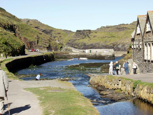 Boscastle Harbour. The Harbour, seen from opposite the Witchcraft Museum. Taken before the horrific flood in August 2004